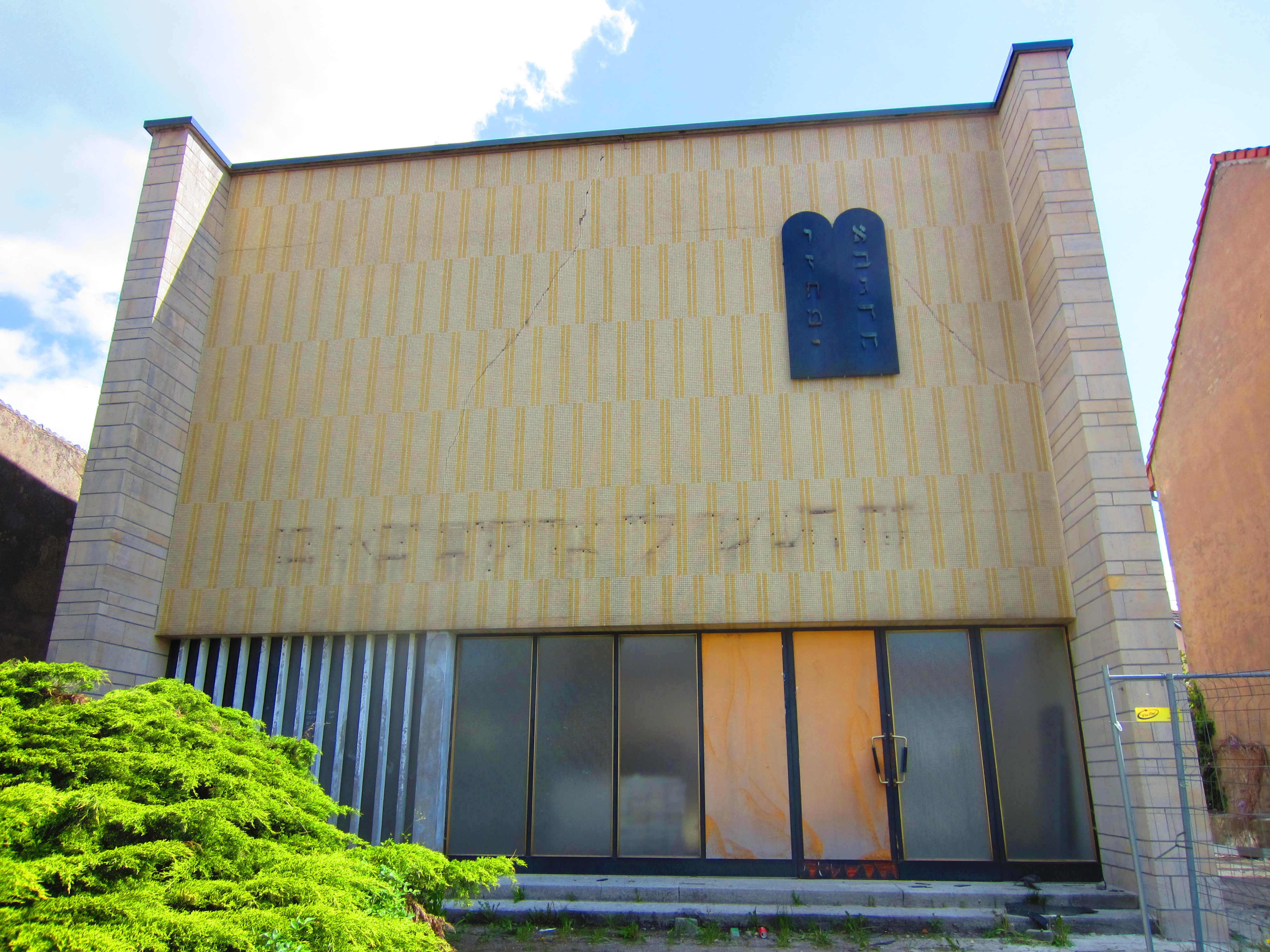 Synagogue Bouzonville